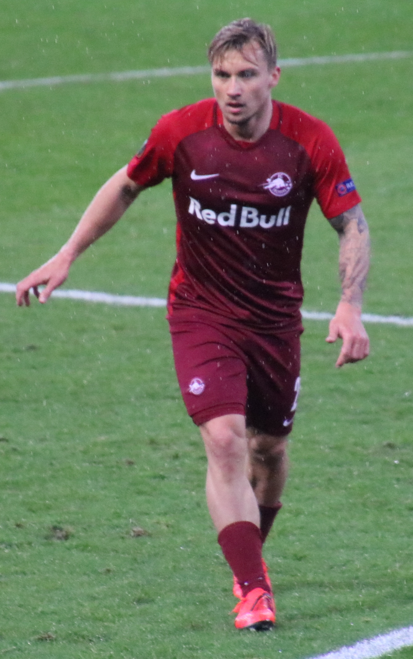 Euro League match round of 16 2nd leg